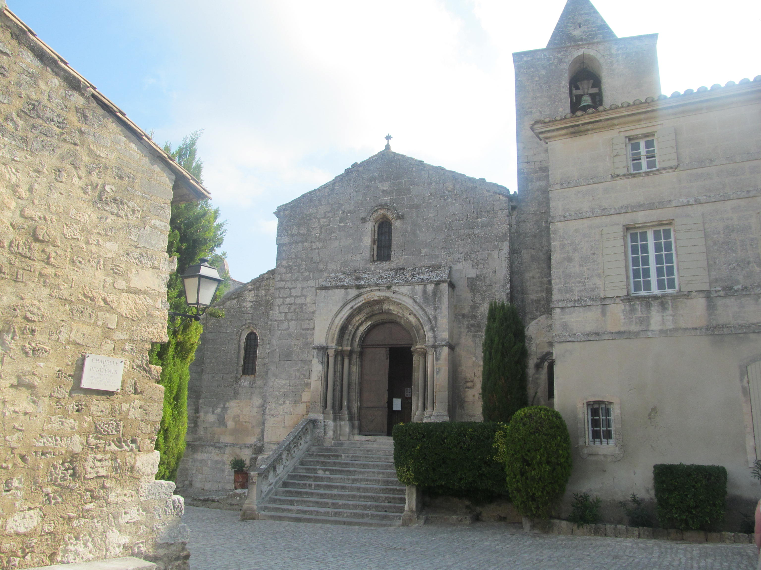 Church of St. Vincent in Les Baux de Provence